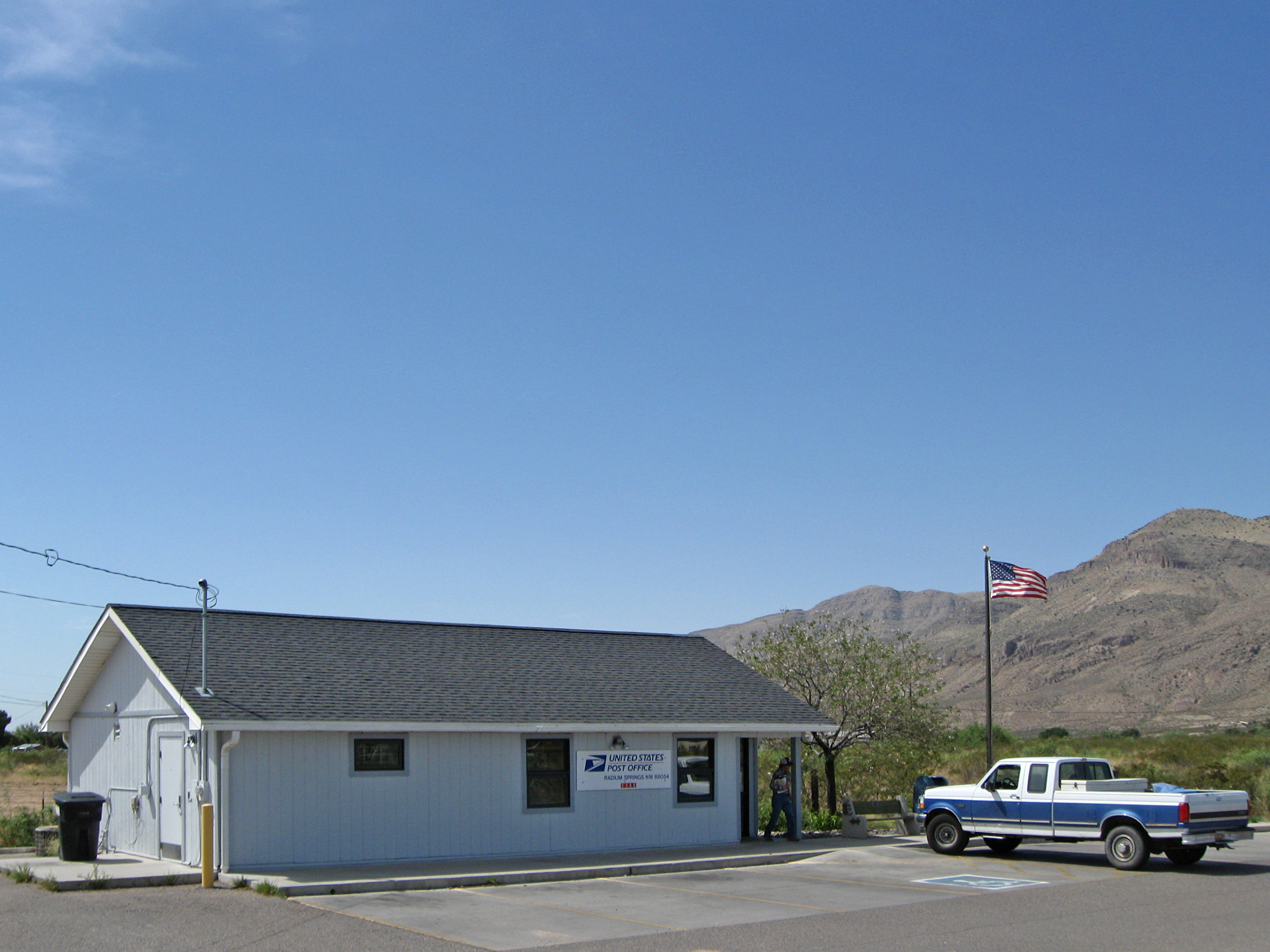 Radium Springs (New Mexico) post office, located at 1145 Fort Selden Road in Radium Springs, New Mexico